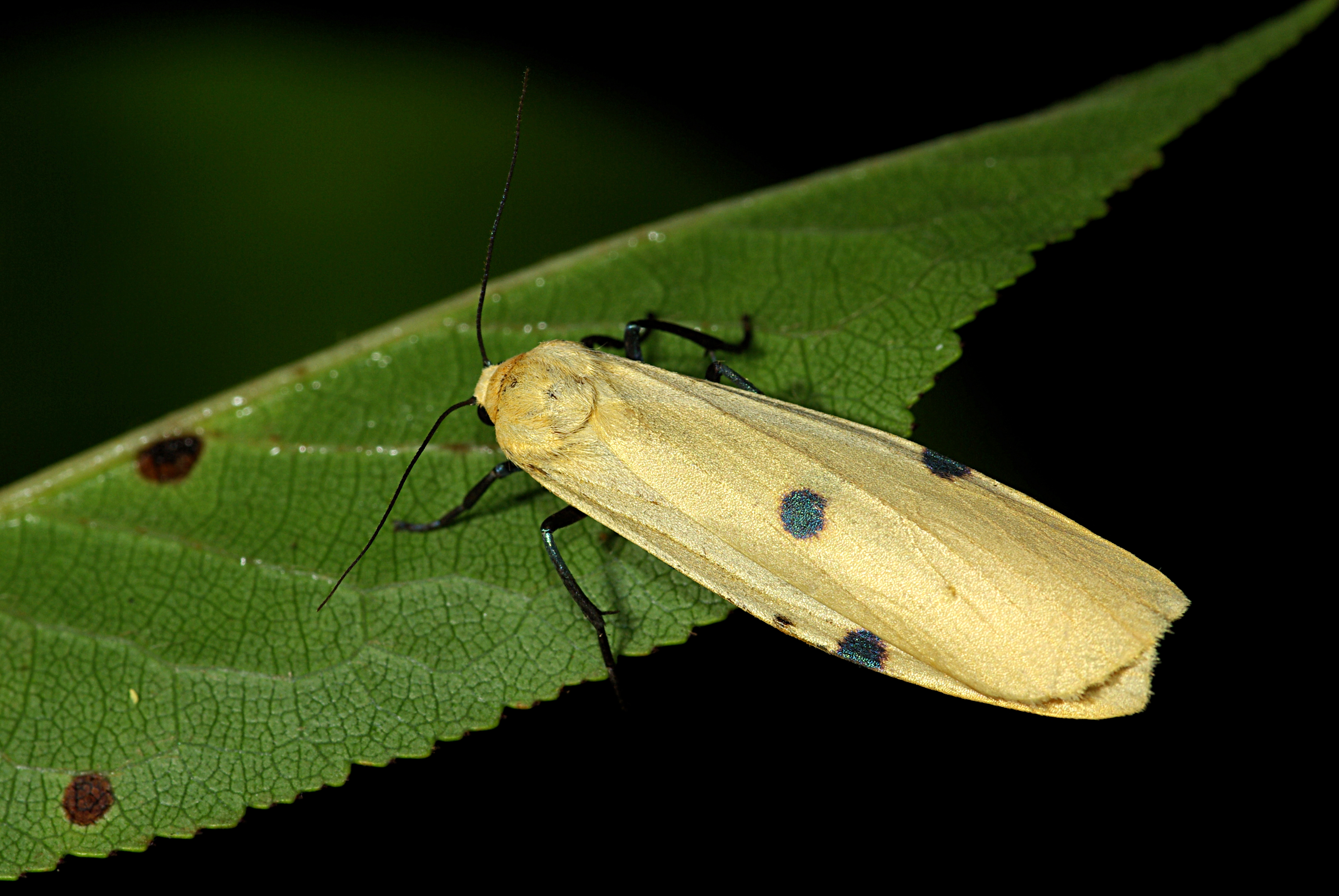 Lithosia quadra female taken (on night) in Vendée, French.